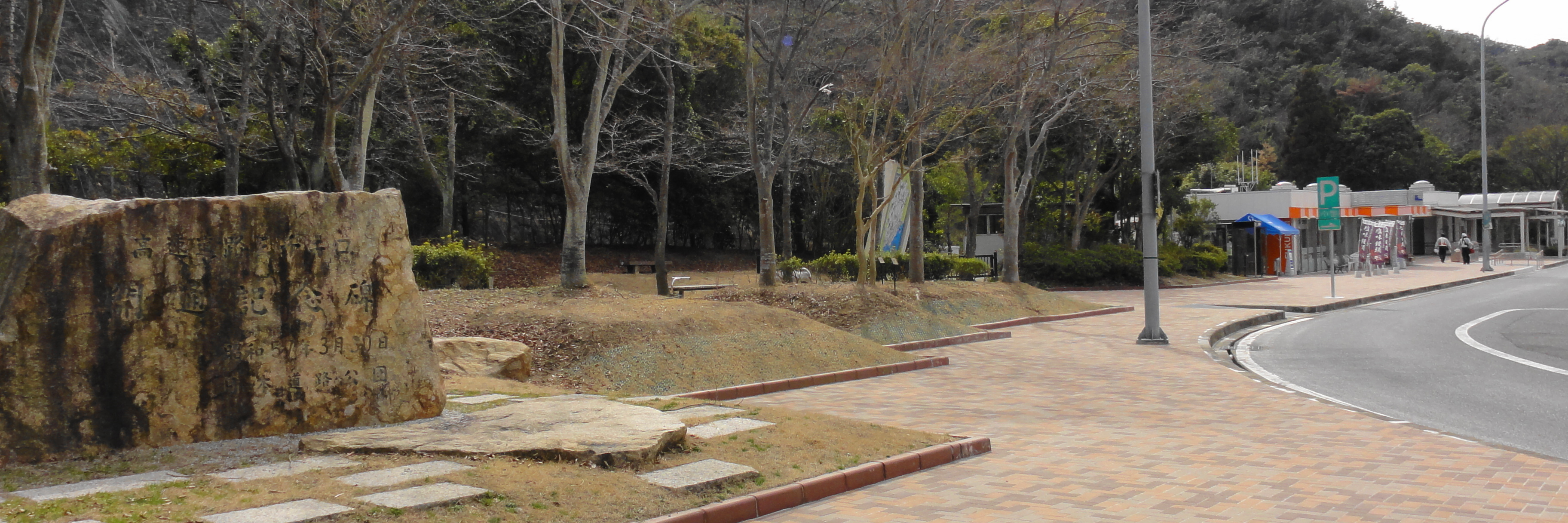 Fukuisi Parking Area,Okayama pref..,Japan